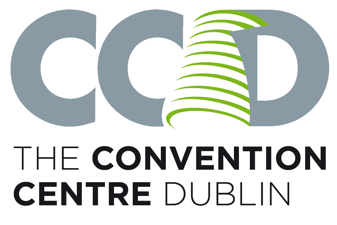 The official logo of the Convention Centre Dublin